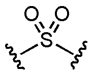 Description: Structure of sulfonyl group. Source = Selfmade. Date = 30 Sep 2006. Made with ChemDraw.